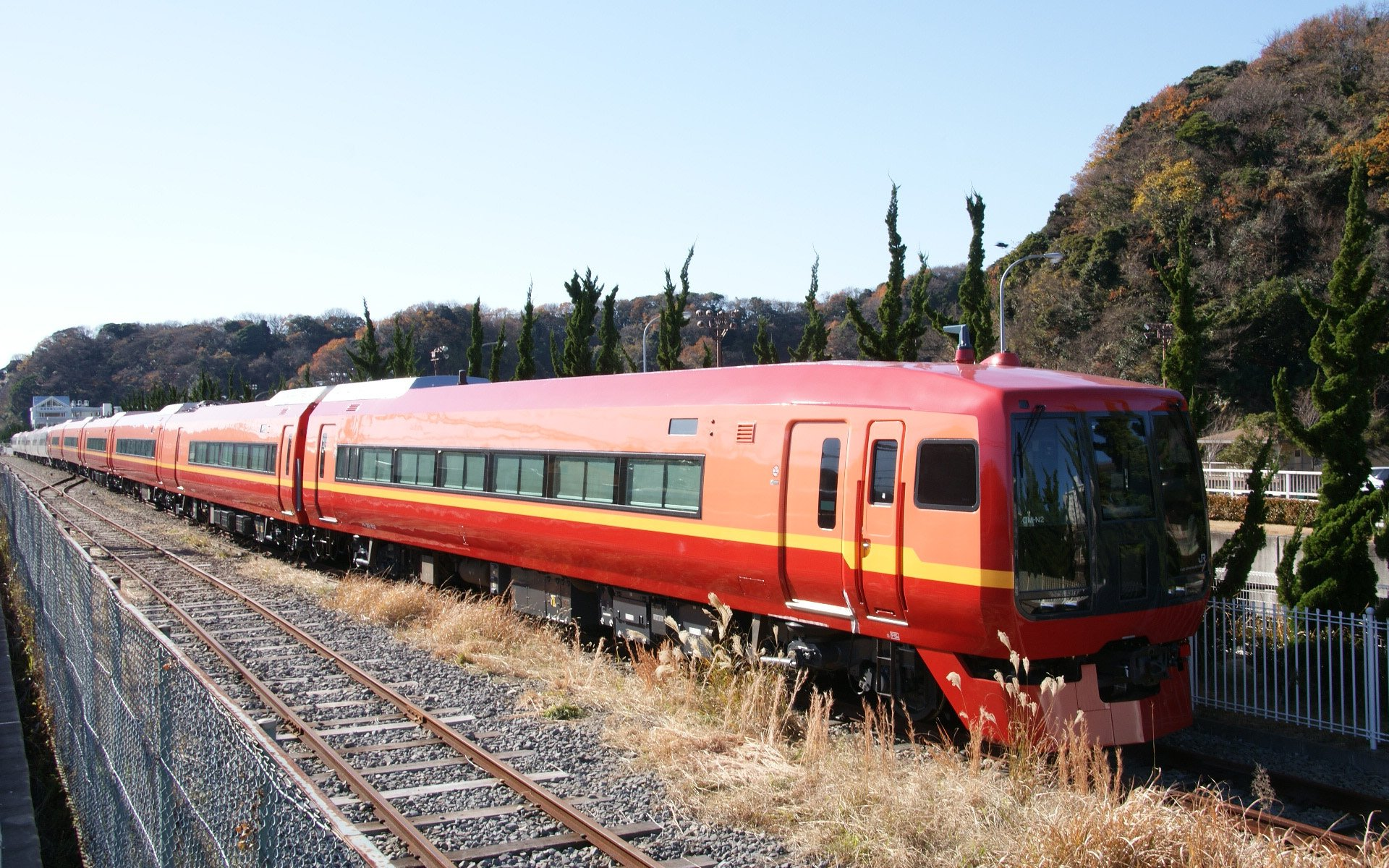 JR East 253-1000 series EMU set OM-N2 next to Jimmuji Station following conversion from a former Narita Express set at the Tokyu Car factory in Yokohama